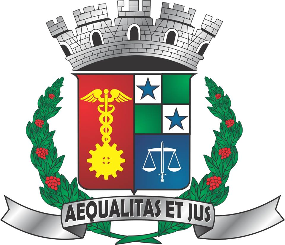 Brasão Bela Vista do Paraíso